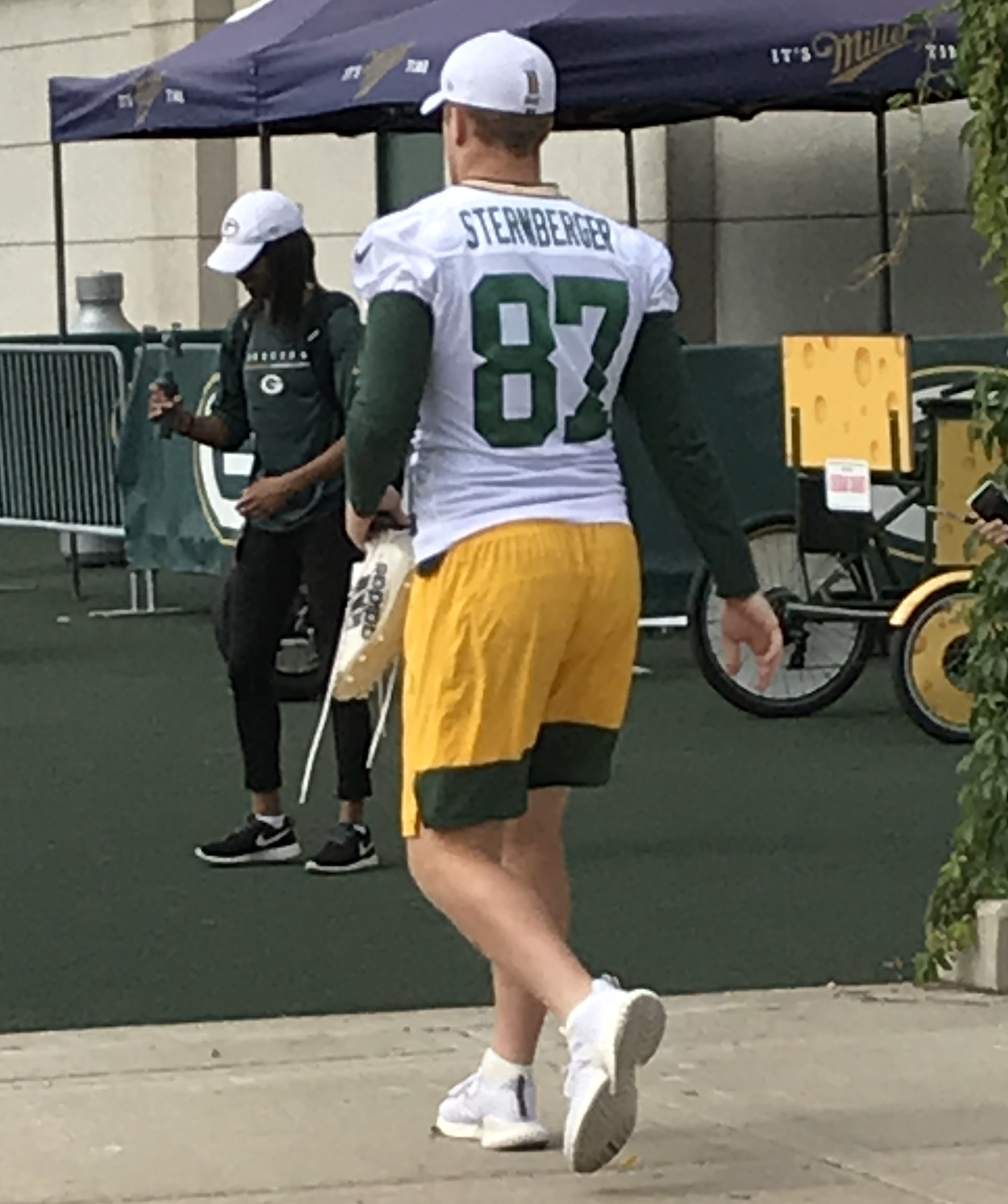 Jace Sternberger, a tight end for the Green Bay Packers, before a training camp practice on August 13, 2019.